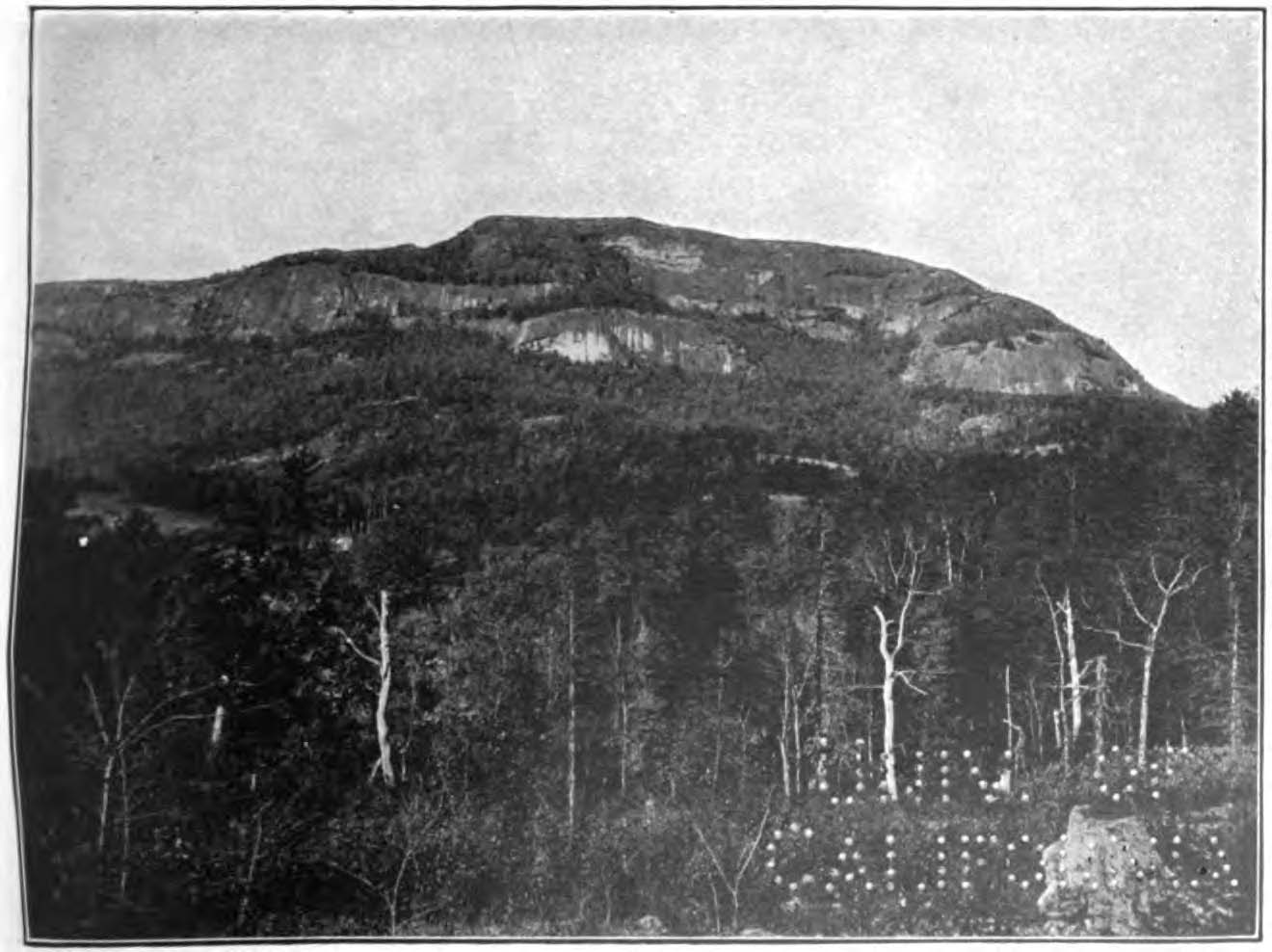 Original caption: "Whiteside Mountain, a granite dome, Jackson County, NC."